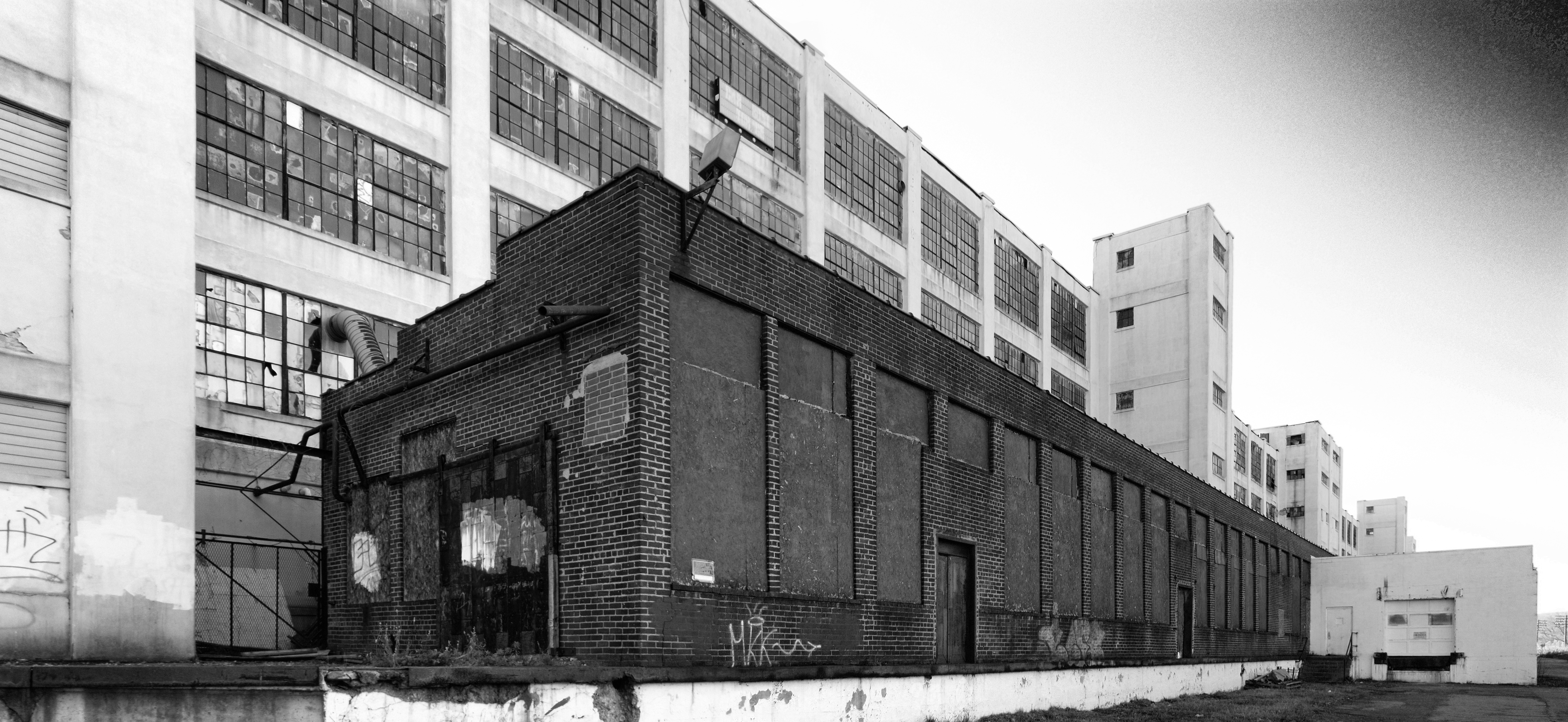 This is a current view of the Victory Factory at the long-gone Endicott-Johnson Shoe Company, Johnson City, New York. The company was responsible for nearly all of the shoe and footwear for the United States Army during World War I and World War II.